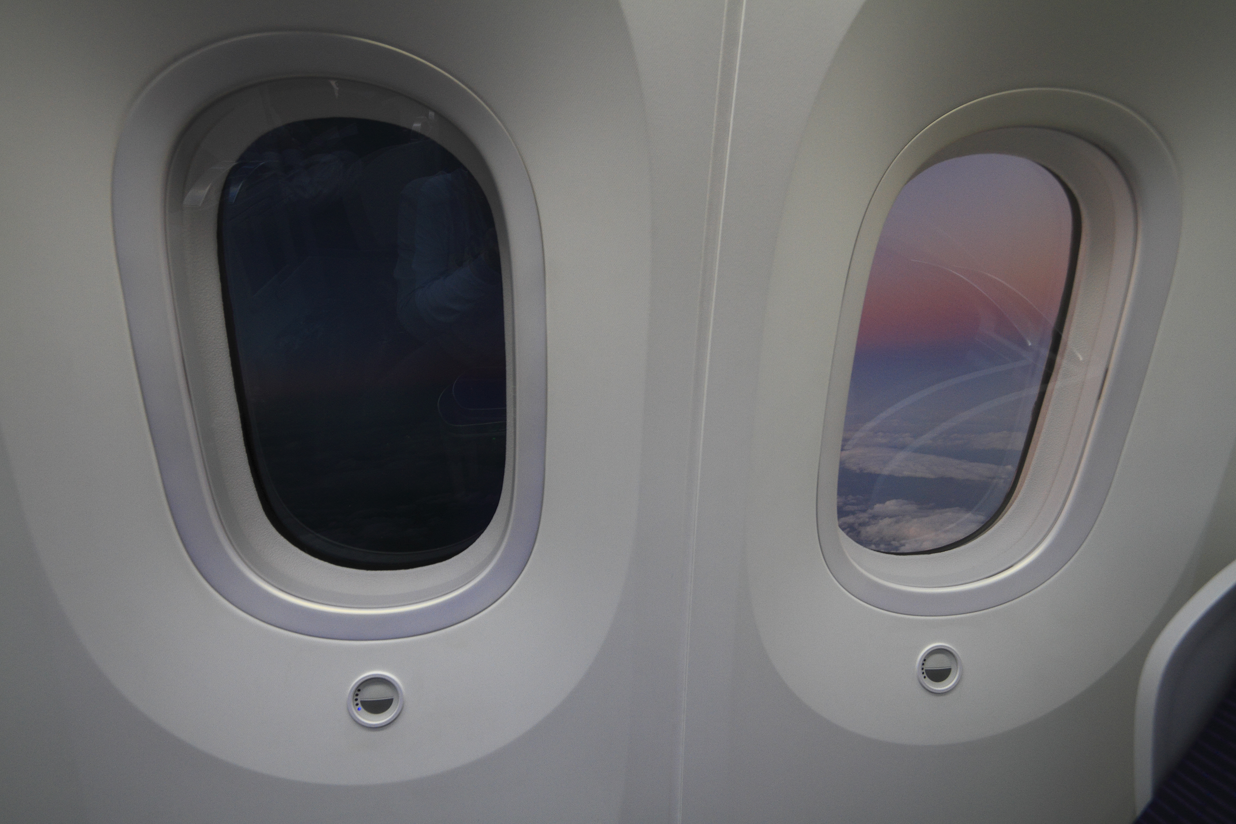 ANA Boeing 787-8 JA801A window electrochromism tinting system